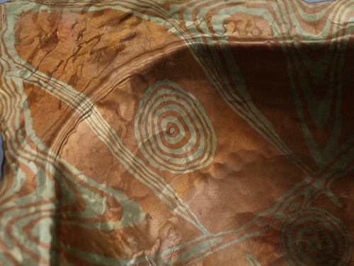 Mokume-gane pattern